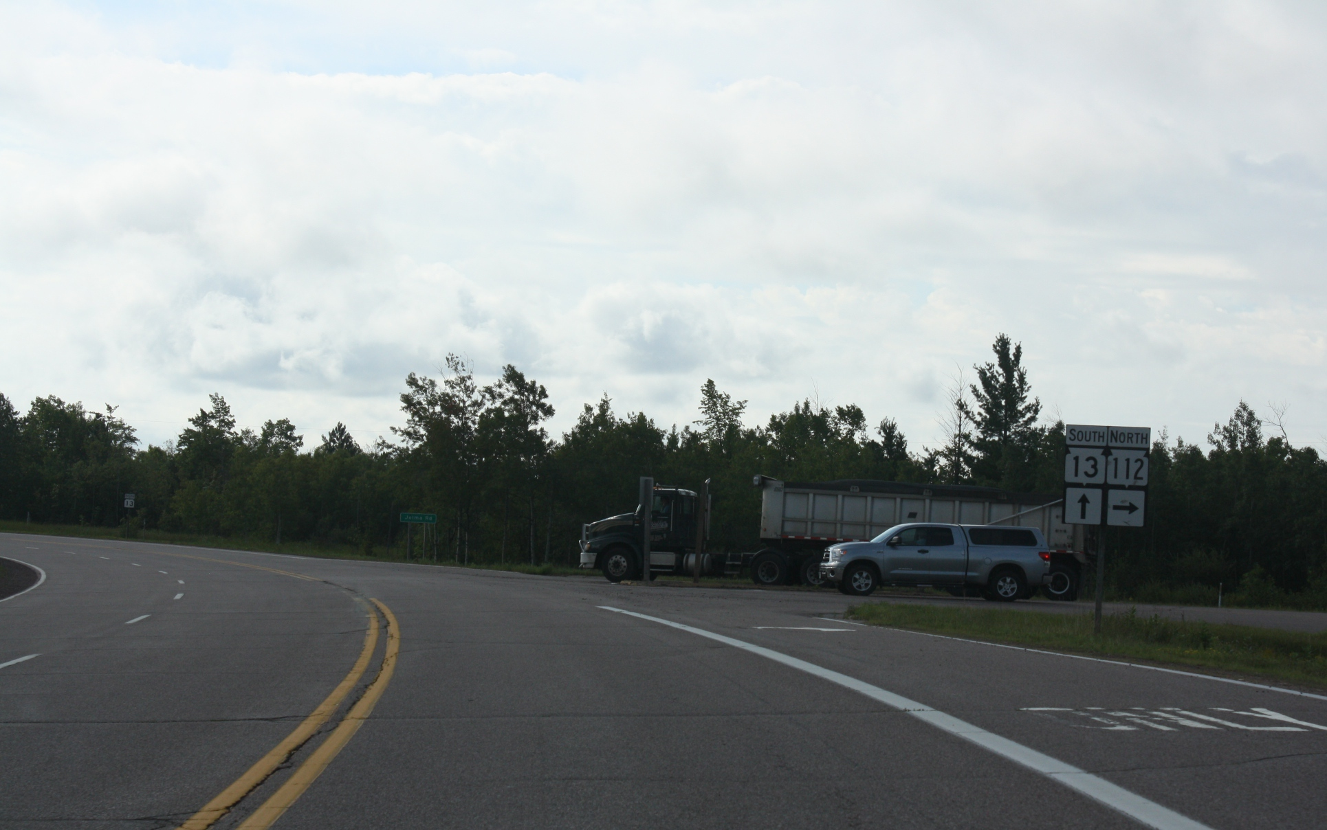 The eastern terminus for Wisconsin Highway 112.